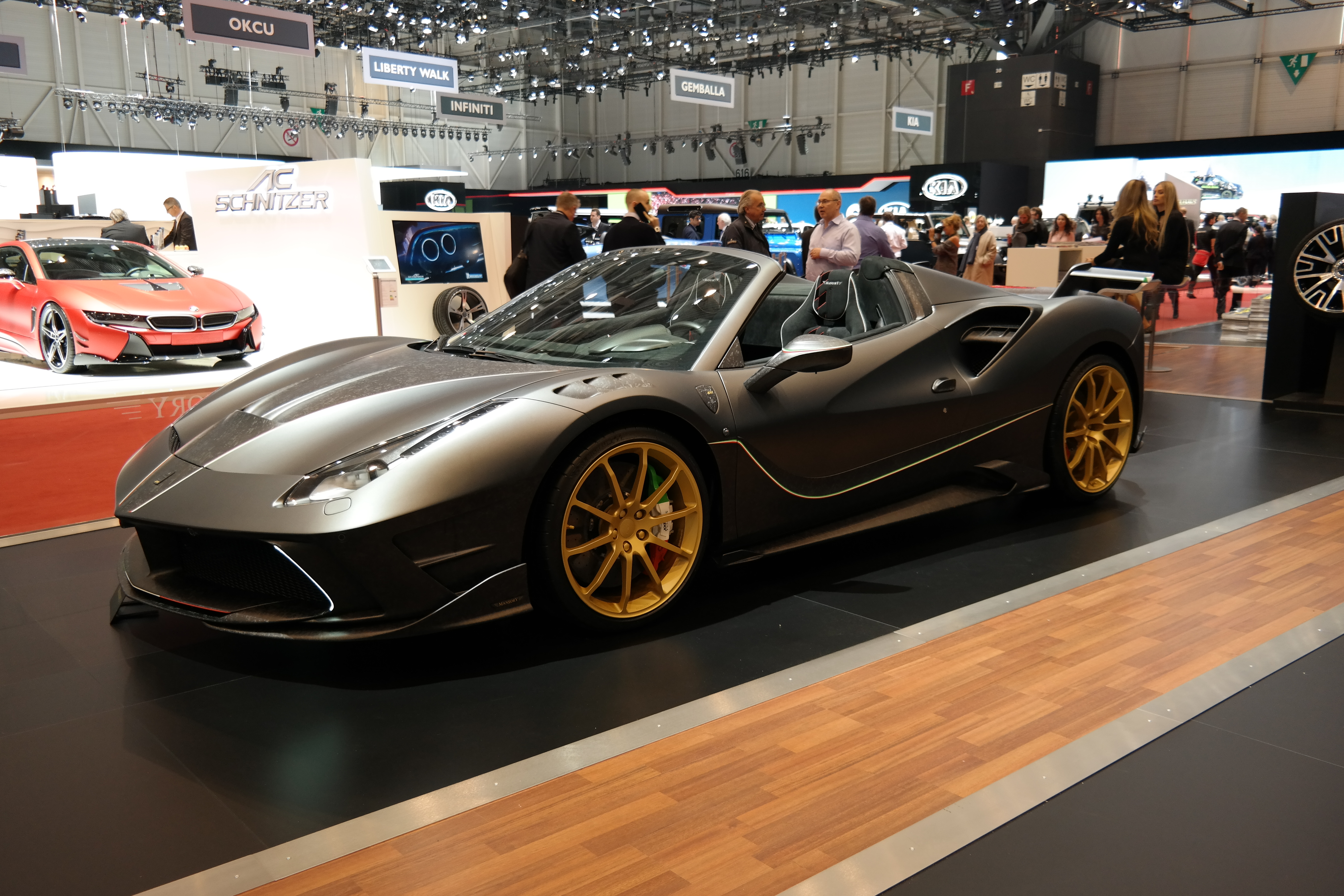 Geneva Motor Show 2017 (photo taken on the first press day)